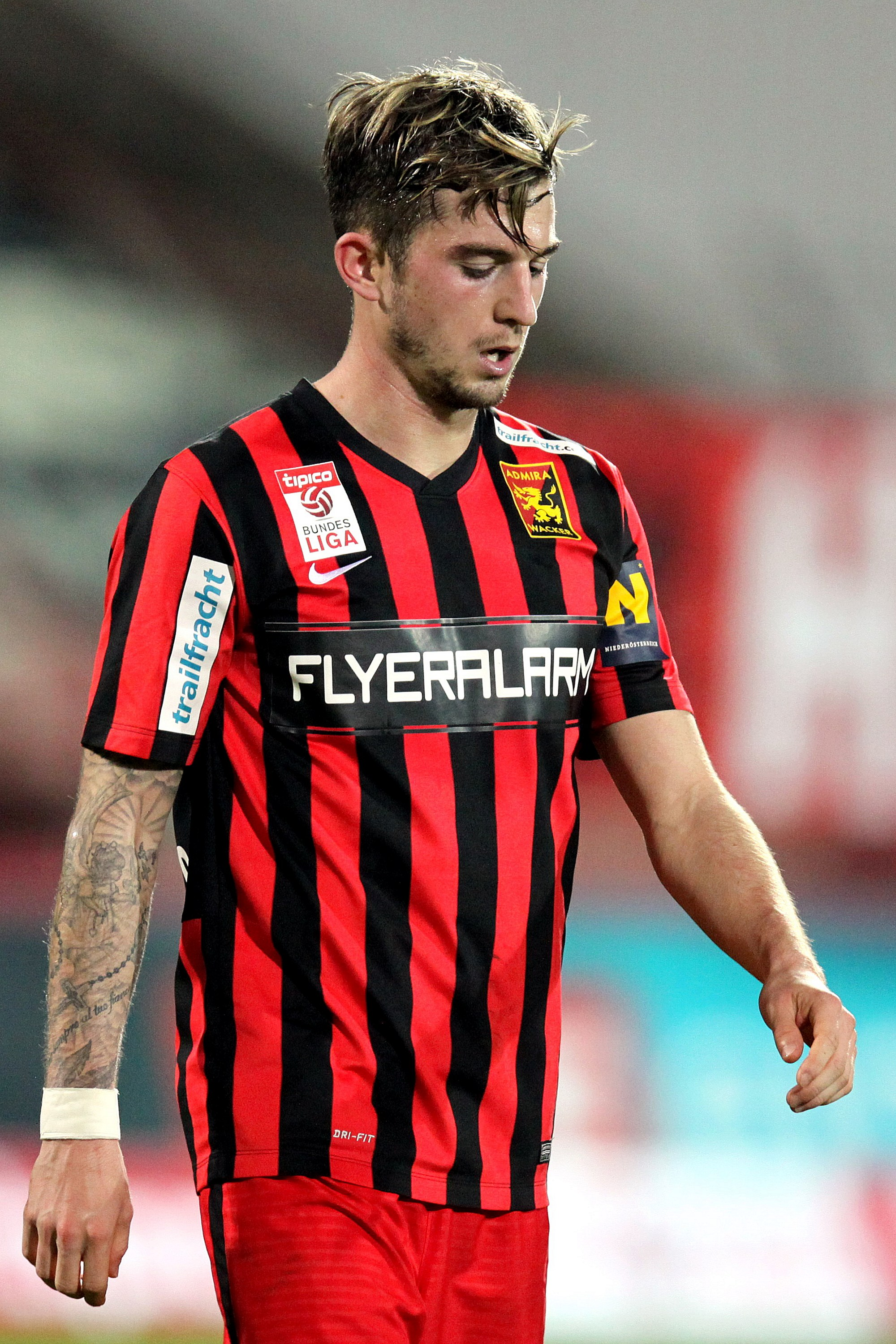 Match of the Austrian Football Bundesliga – FC Admira Wacker Mödling (red shirts) vs. SK Rapid Wien (white shirts) 2-1 (0-1) on 2015-12-02 in Bundesstadion Sudstadt – The photo shows Christoph Knasmüllner.